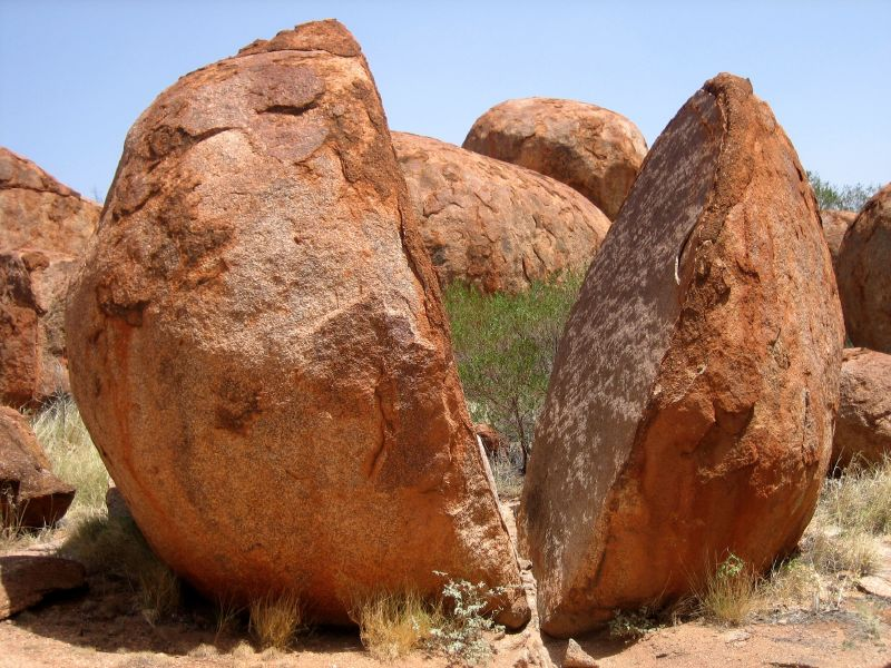 Devil's Marbles, a boulder cracked by weathering, cf. explanation. Australia.